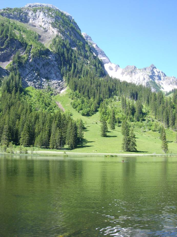 At the Lauenensee.